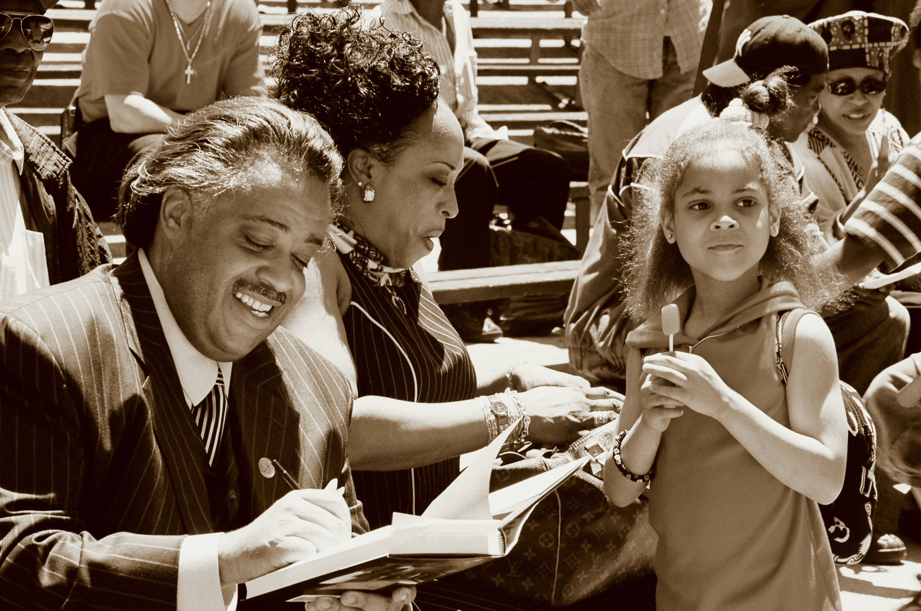 book signing of let my people go in garvery park